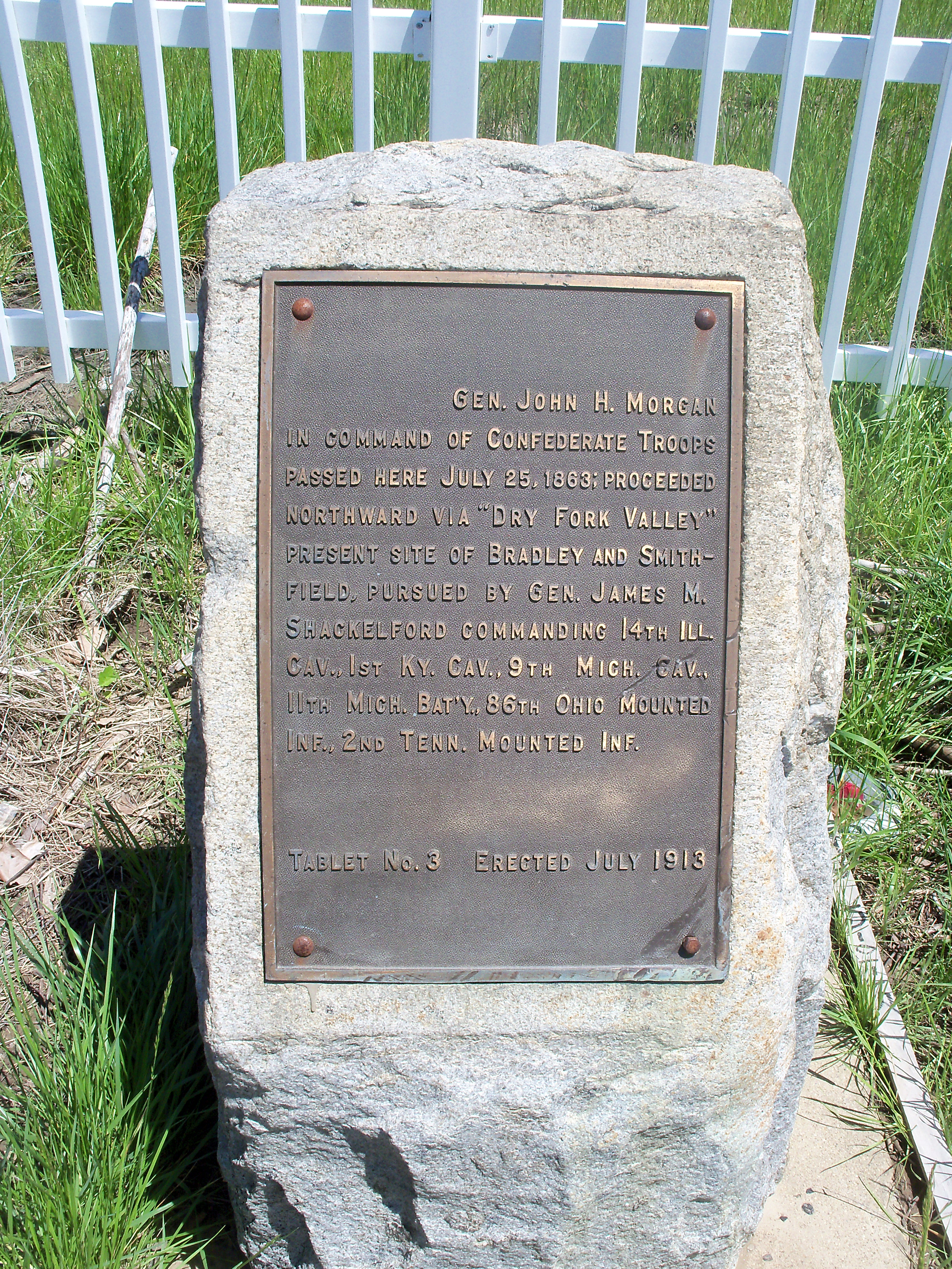 Confederate General John Hunt Morgan passed through Deyarmonville, Ohio in Warren Township, Jefferson County, Ohio in 1863, shortly before his defeat some distance north at the Battle of Salineville